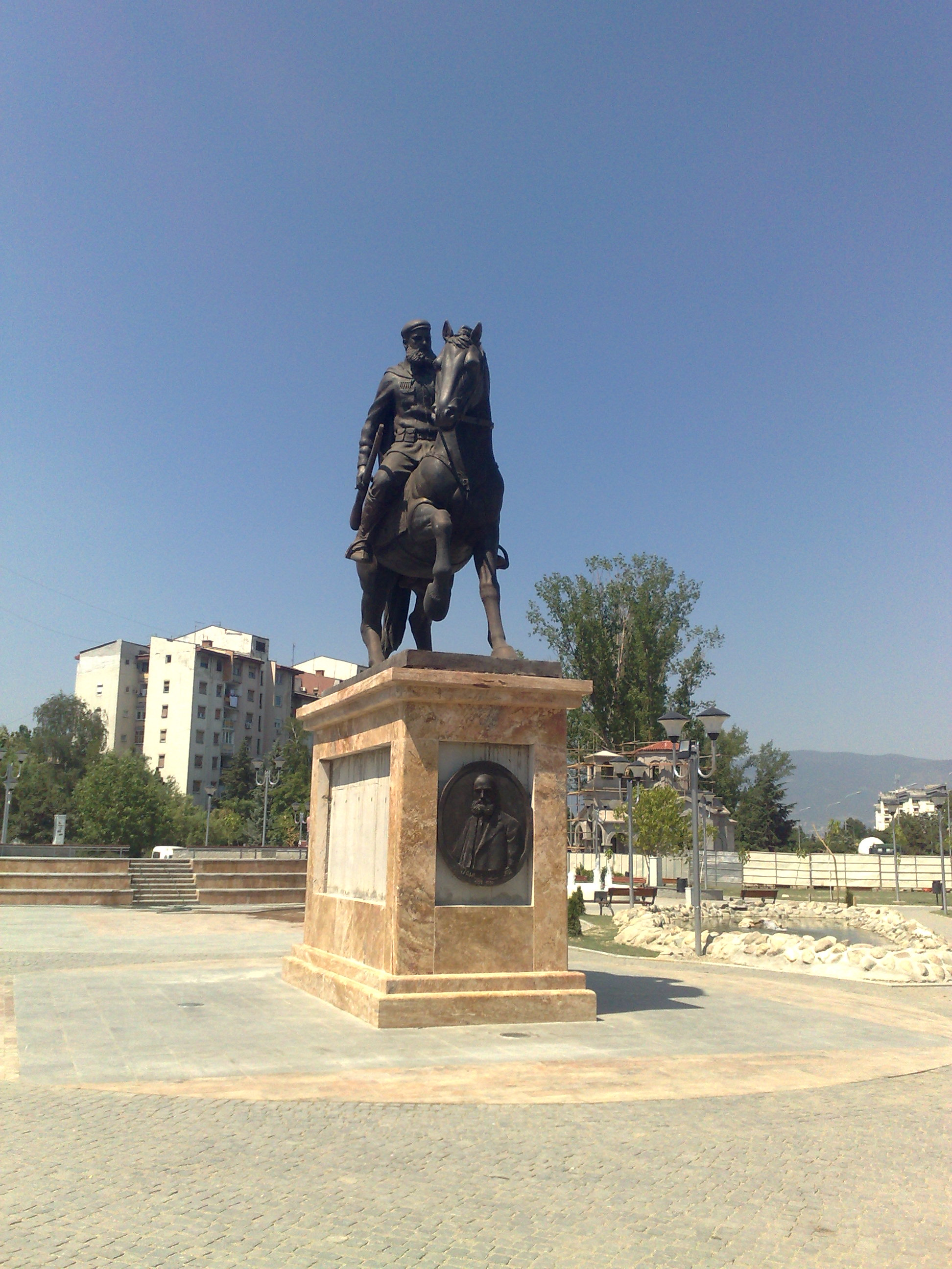 The monument of the Macedonian revolutionary Jane Sandanski in city quarter Aerodrom in Skopje, Macedonia